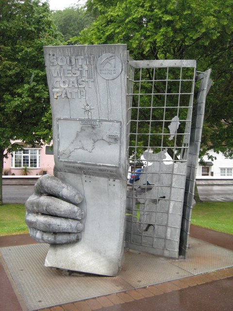 South West Coast Path sculpture This sculpture in Minehead marks the starting point of the South West Coast Path, a long distance footpath which follows the coast around the counties of Somerset, North Devon, Cornwall, South Devon and finally Dorset, a totally distance of more than 600 miles.